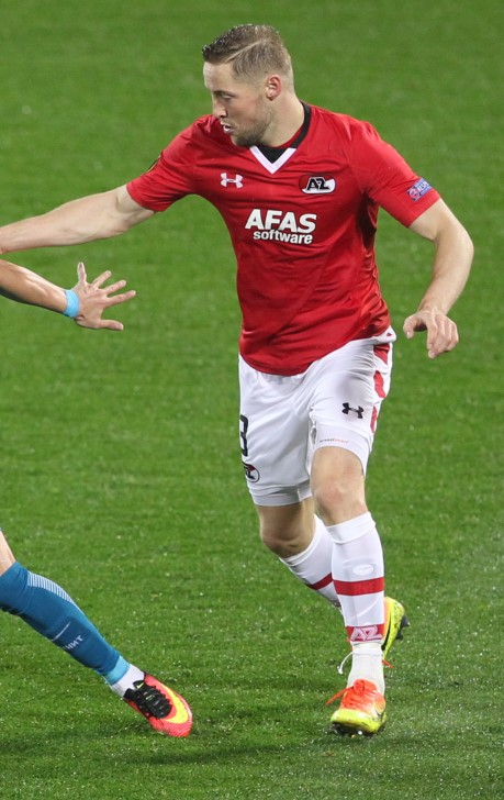 Rens van Eijden